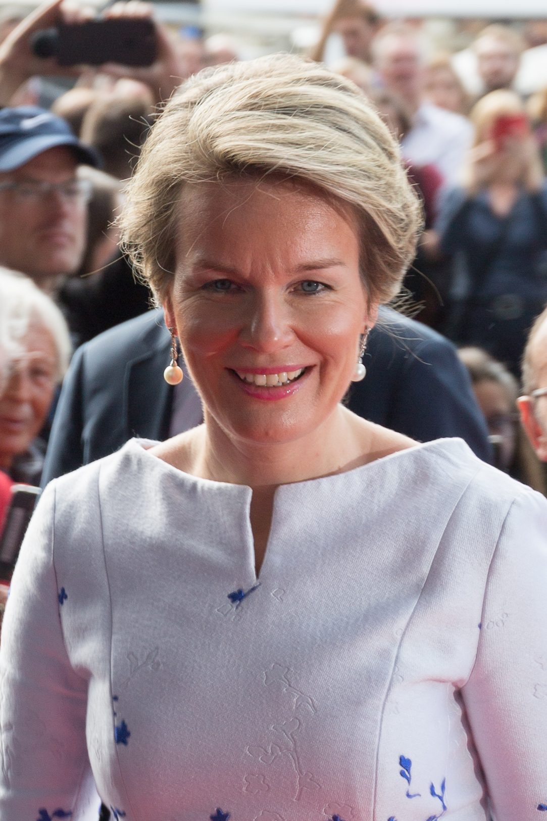 Queen Mathilde of Belgium at the Frankfurt Book Fair 2017